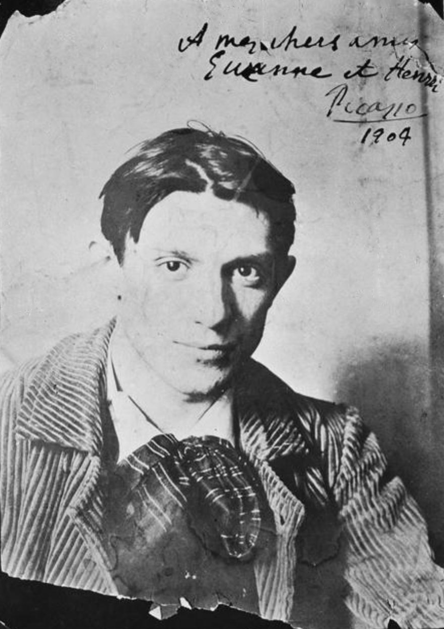 Pablo Picasso, 1904, Paris, photograph by Ricard Canals i Llambí